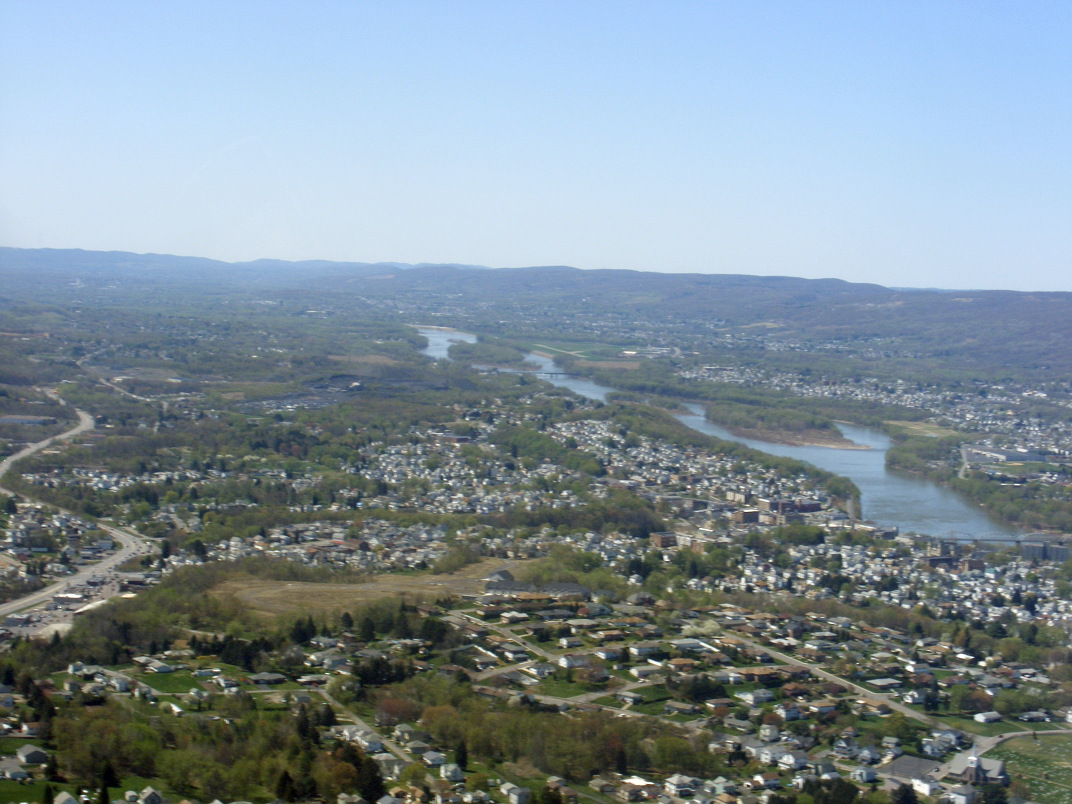 Pittston City Aerial view. Downtown is seen in the middle right.